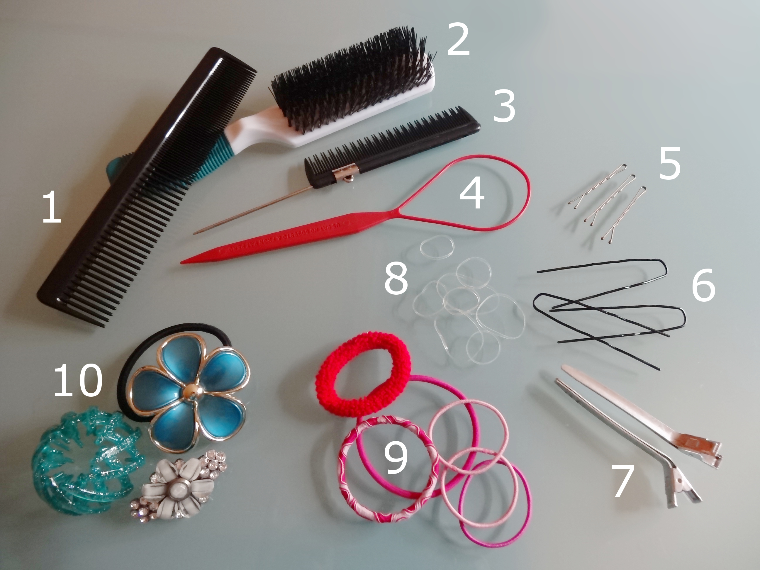 basic hair braiding equipment: 1. comb, 2. brush, 3. rat tail comb, 4. threading tool, 5. bobby pins, 6. hair pins, 7. clips, 8. transparent elastics, 9. covered elastics, 10. decorative items